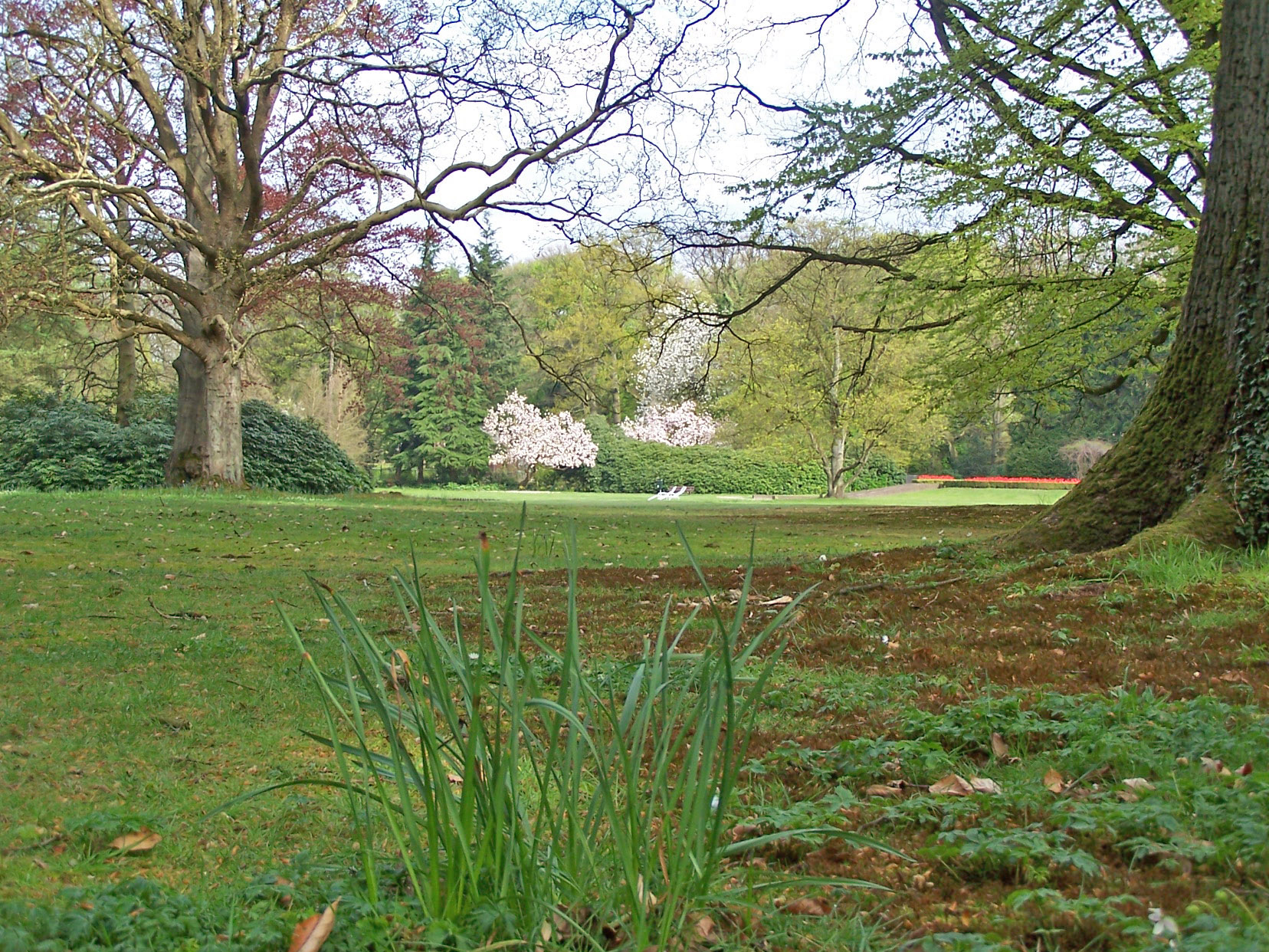 Abraham Ledeboerpark, Enschede A view on the center of the park